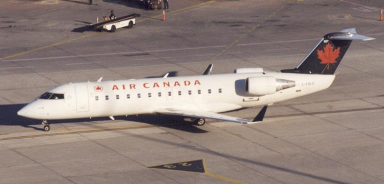 Canadair CRJ-100 of Air Canada at Toronto